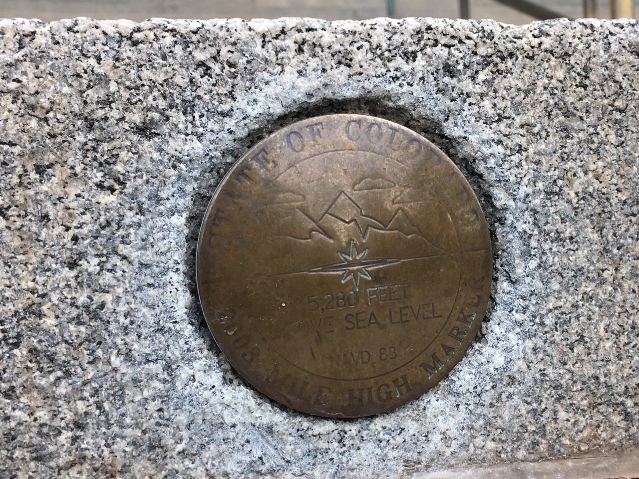 Colorado State Capitol Building west entrance steps 13th